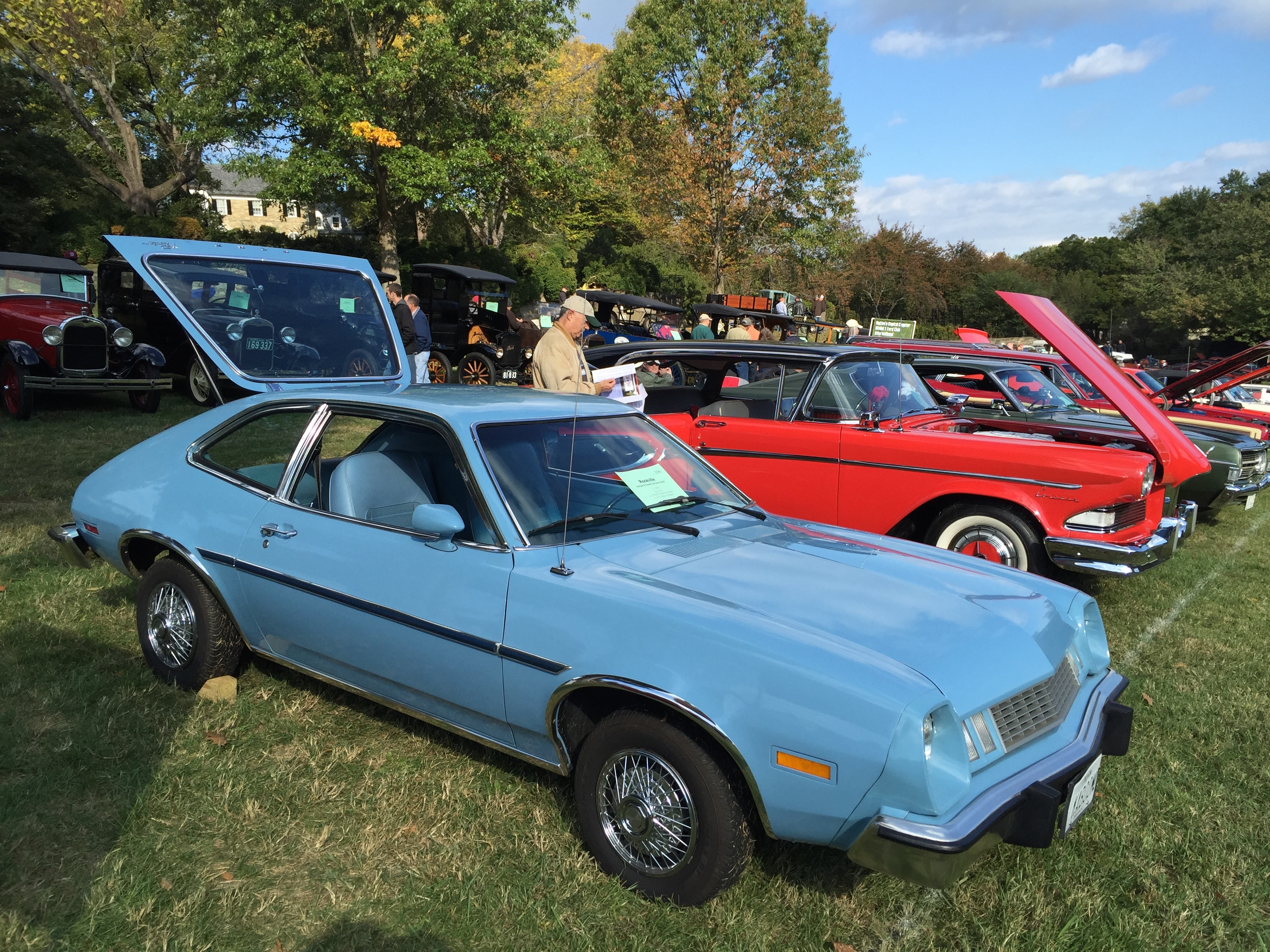 1978 Ford Pinto hatchback, an economy, subcompact car. This car has aftermarket wire wheel covers, but it is in original factory condition with only 1,075 miles on the odometer! Picture taken during the 2015 Rockville Antique and Classic Car Show in Maryland